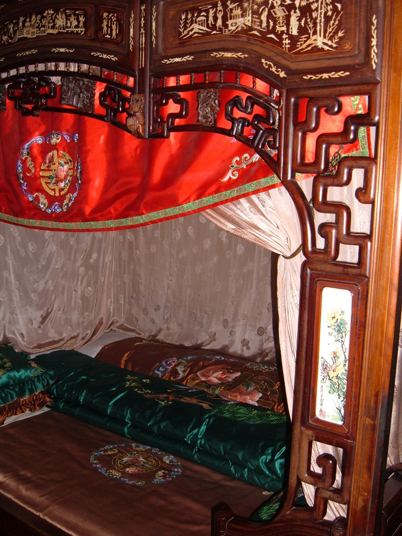 The daughter's bed in the Shikumen Open House Museum, Shanghai, China.